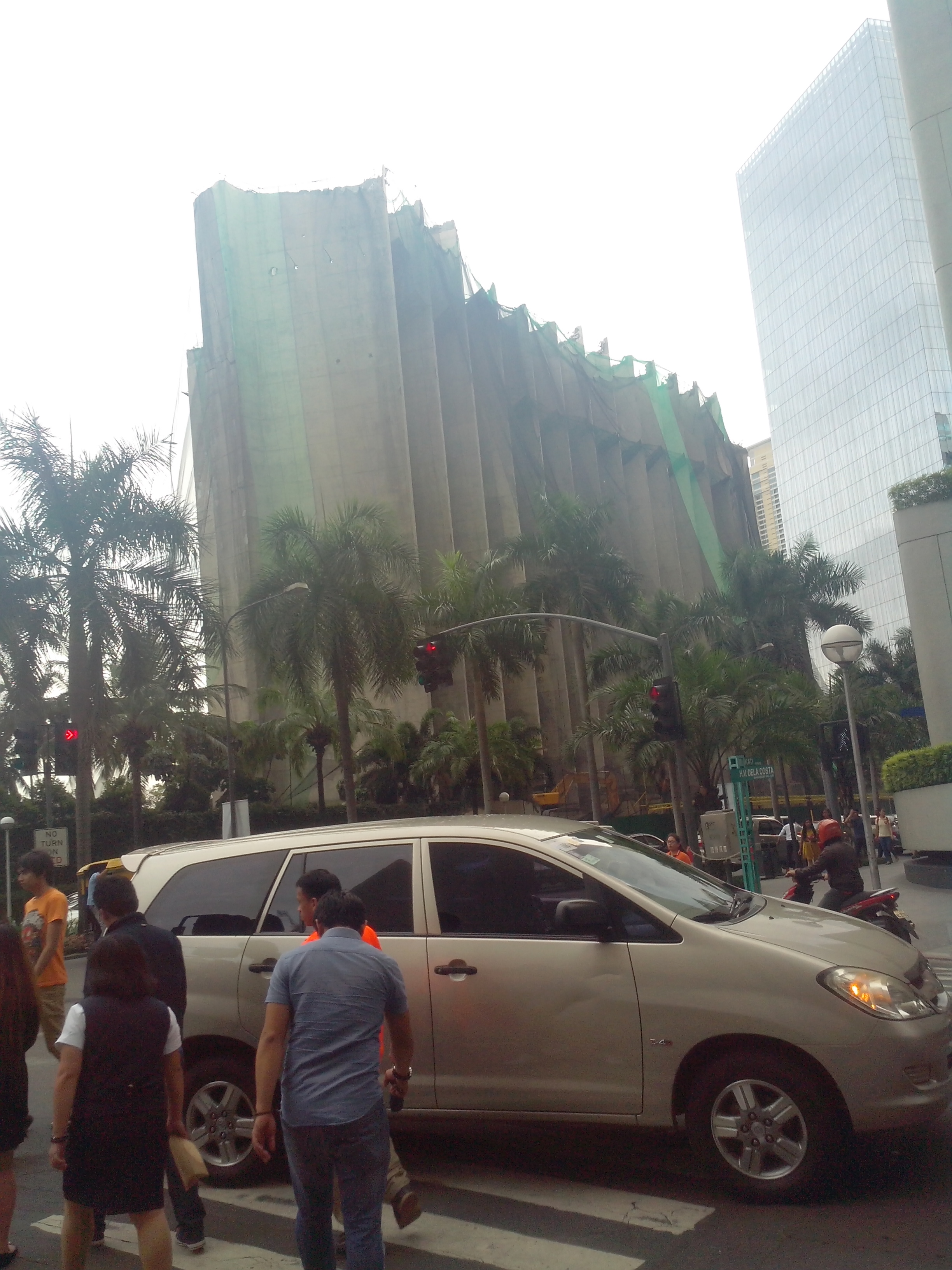 Gradual demolition works of the Mandarin Oriental Manila as of December 2015. Tagalog: Ang unti-unting pag-giba sa Mandarin Oriental Manila. Disyembre 2015.